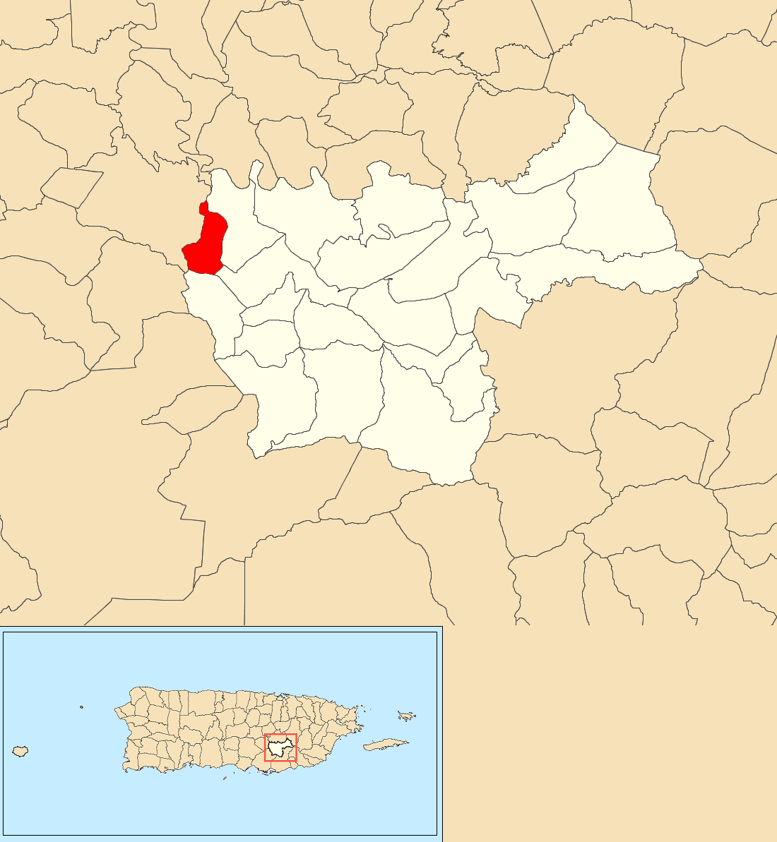 Piedras, Cayey, Puerto Rico locator map